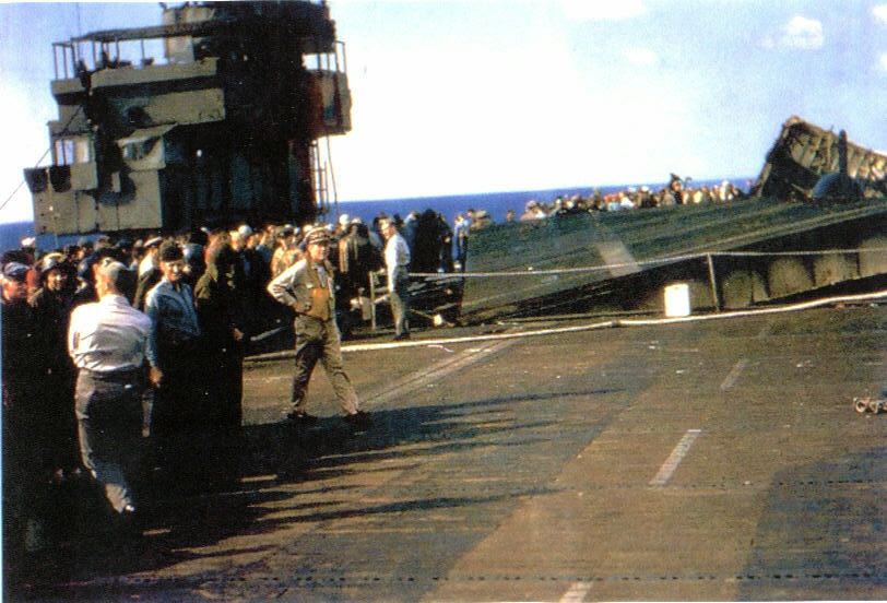 On 4 May 1945, at 19:33 hrs, USS Sangamon (CVE-26) was hit by a kamikaze. The next day, the crew is mustering at stations to see who is missing from the attack the night before. There is no one at the bridge: steering has been transferred to aft steering on the port side due to damage on the bridge from the kamikaze hit.